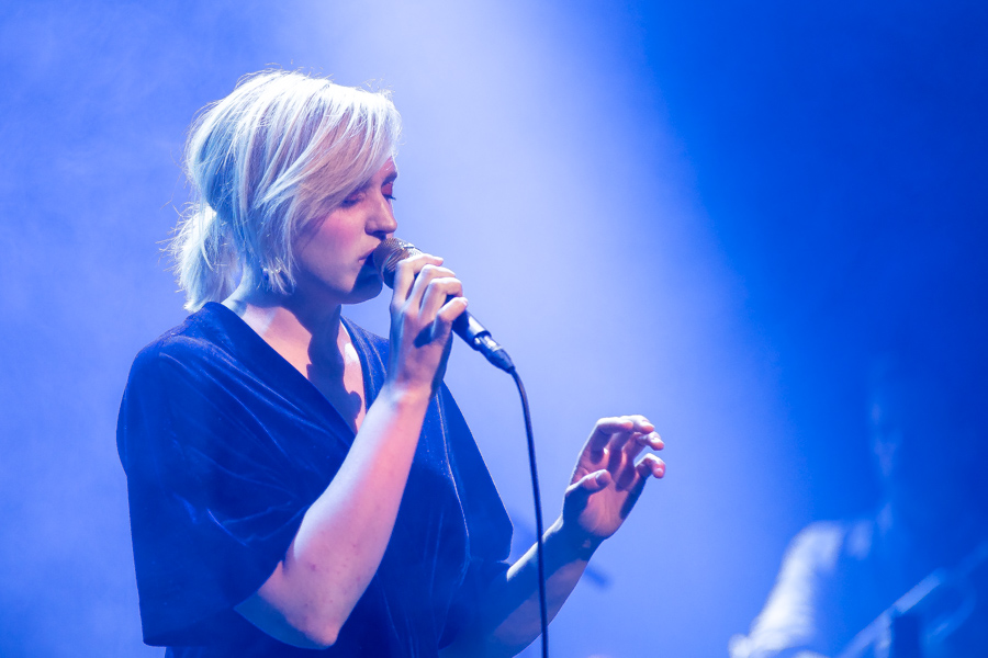 Frida Ånnevik in a Tribute to Joni Mitchell in Kongsberg Musikkteater. The concert was the opening concert of Kongsberg Jazzfestival and took place on 03. July 2019 in Kongsberg. Lineup:Rohey Taalah (vocal)Susanna Wallumrød (vocal)Frida Ånnevik (vocal)Sondre Lerche (vocal)Hanna Paulsberg (saxophone)Heida Mobeck (tuba)Torstein Lavik Larsen (trumpet)Christian Skår Winther (guitar)Magnus Nergaard (double bass)Hans Hulbækmo (drums and percussion)Anja Lauvdal (musical director and piano)